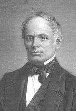 Adin Ballou